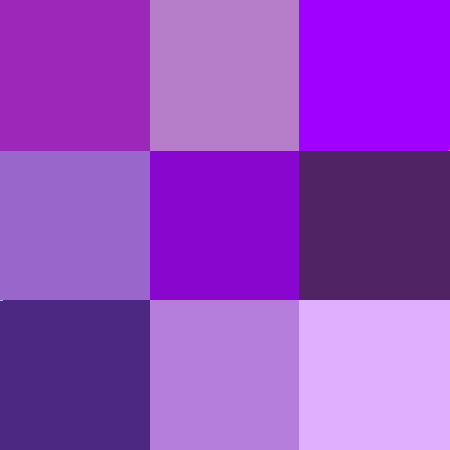 Shades of the color violet